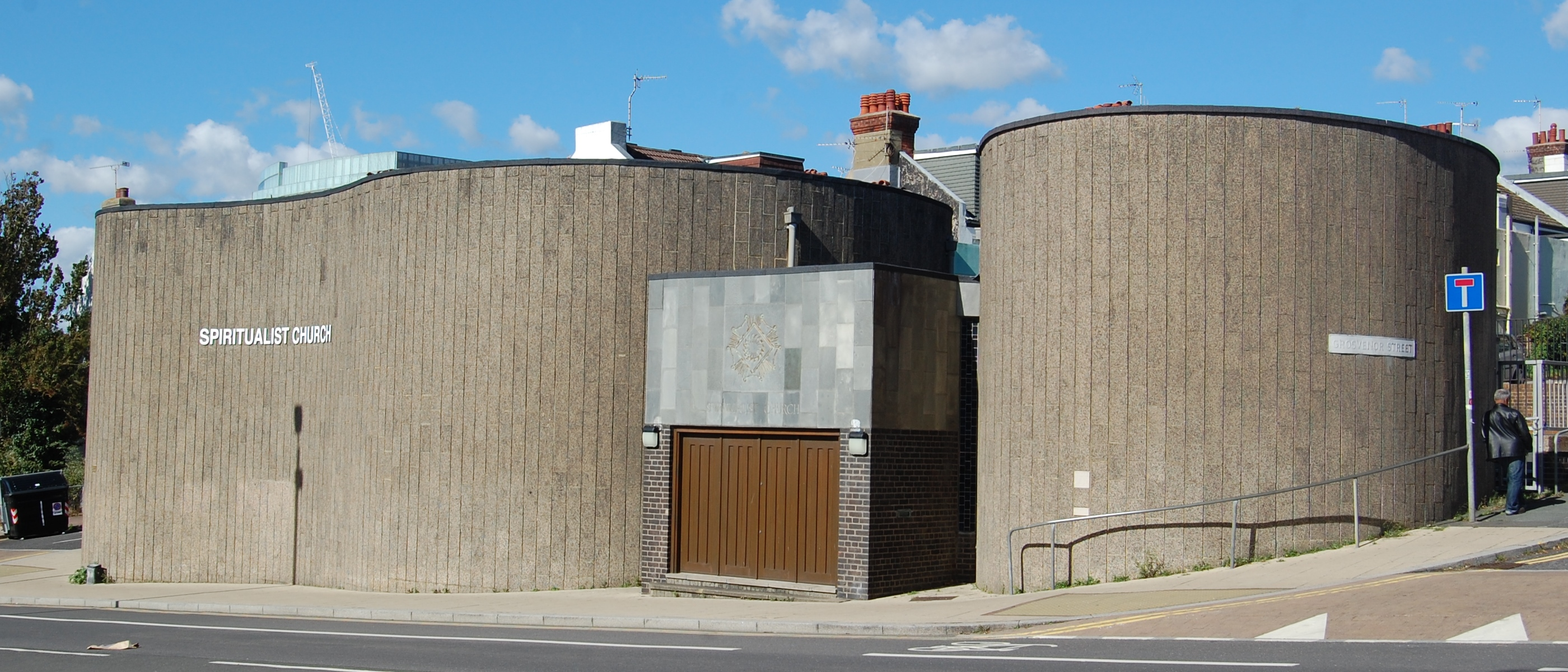 Brighton National Spiritualist Church, corner of Edward Street and Grosvenor Street, Brighton. Built between 1964 and 1965 to replace a nearby chapel demolished to make way for Amex House, the American Express headquarters. On Brighton & Hove City Council's Local List of Heritage Assets.